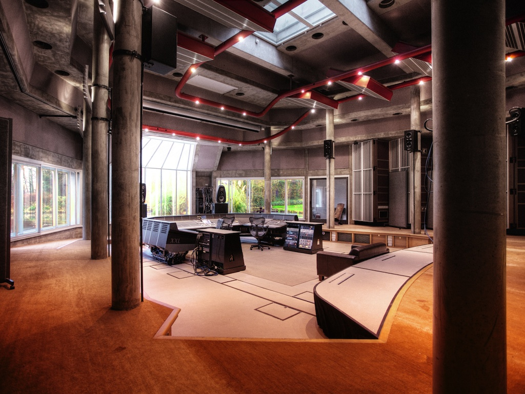 Big Room